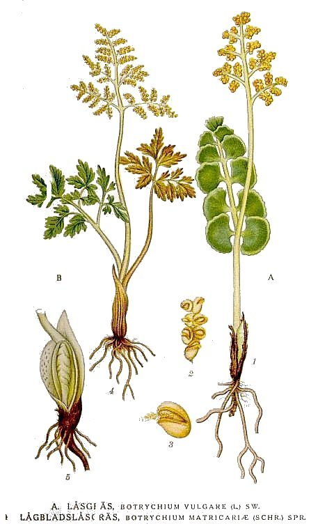 A. Botrychium lunaria (L.) Sw. B. Botrychium multifidum (S. G. Gmel.) Rupr. Original Description A. Låsgräs, Botrychium vulgare (L.) Sw. B. Lågbladslåsgräs, Botrychium matricariae (Schr.) Spr.